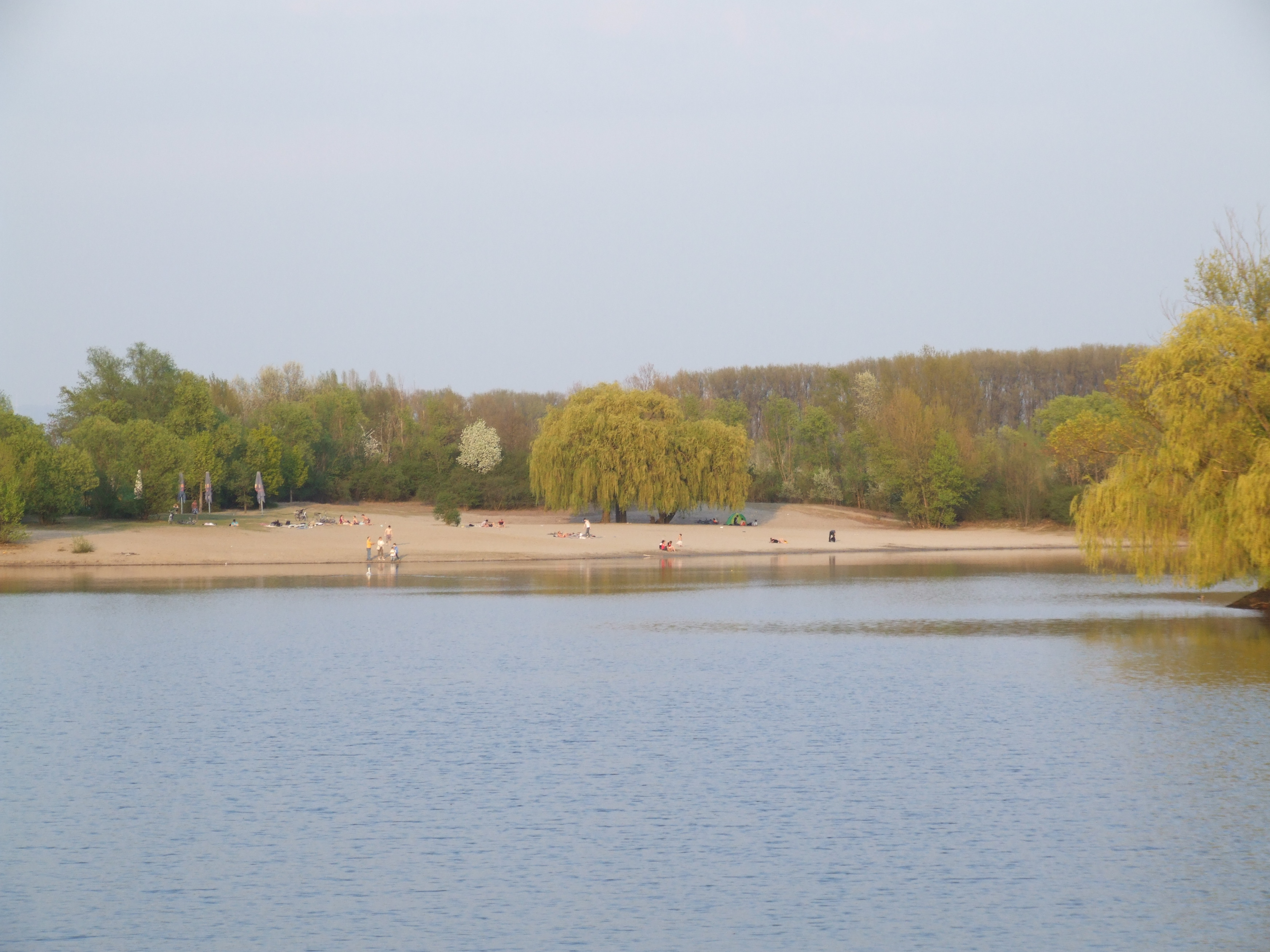 Beach at lake Binsfeld in northern Speyer